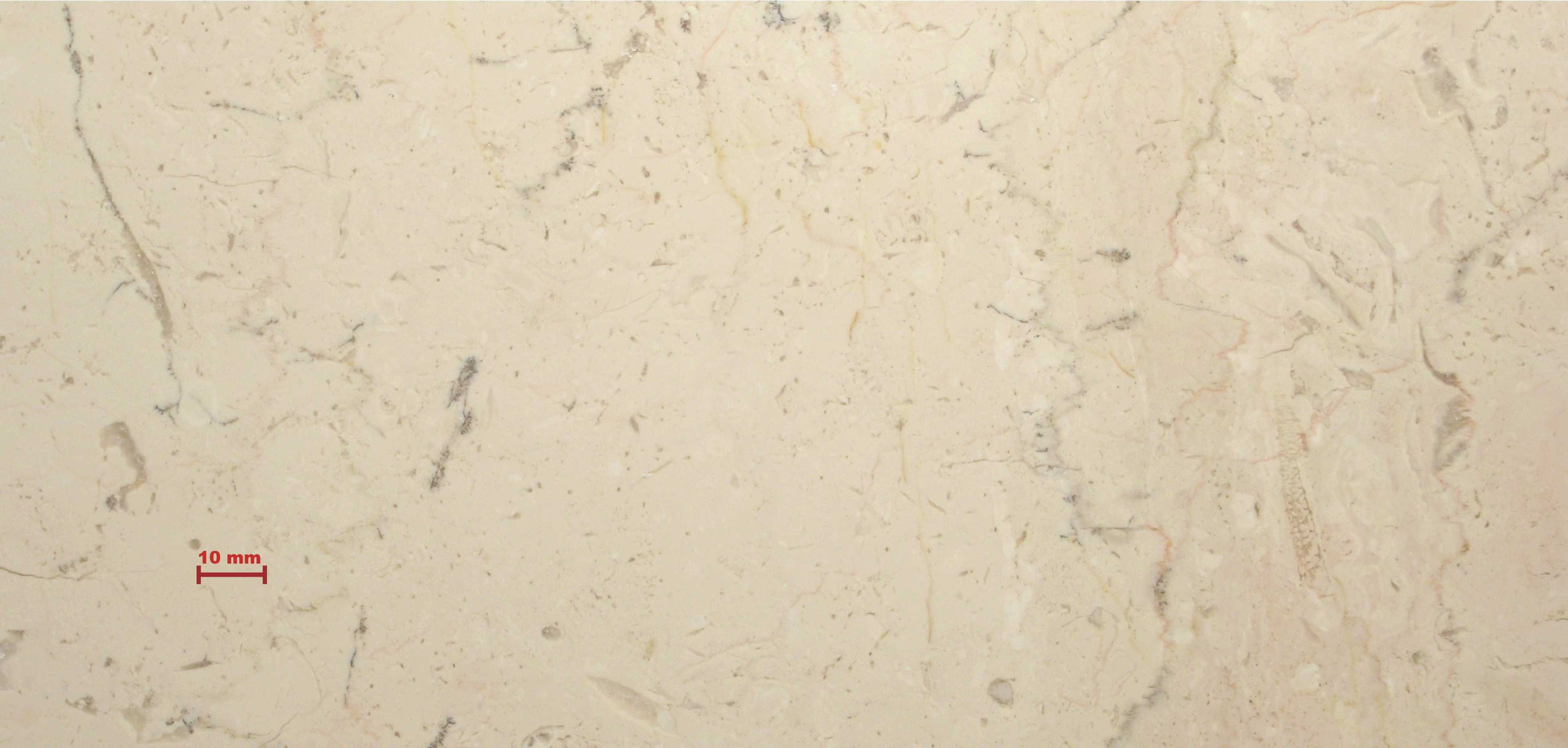 limestone from the region of Trani and Apricena (Italy)